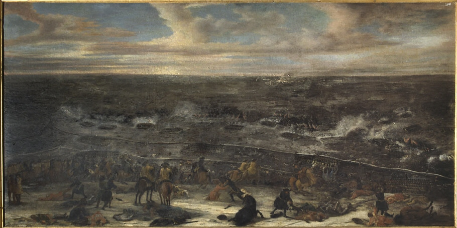 Battle of Lund, by Johan Philip Lemke.